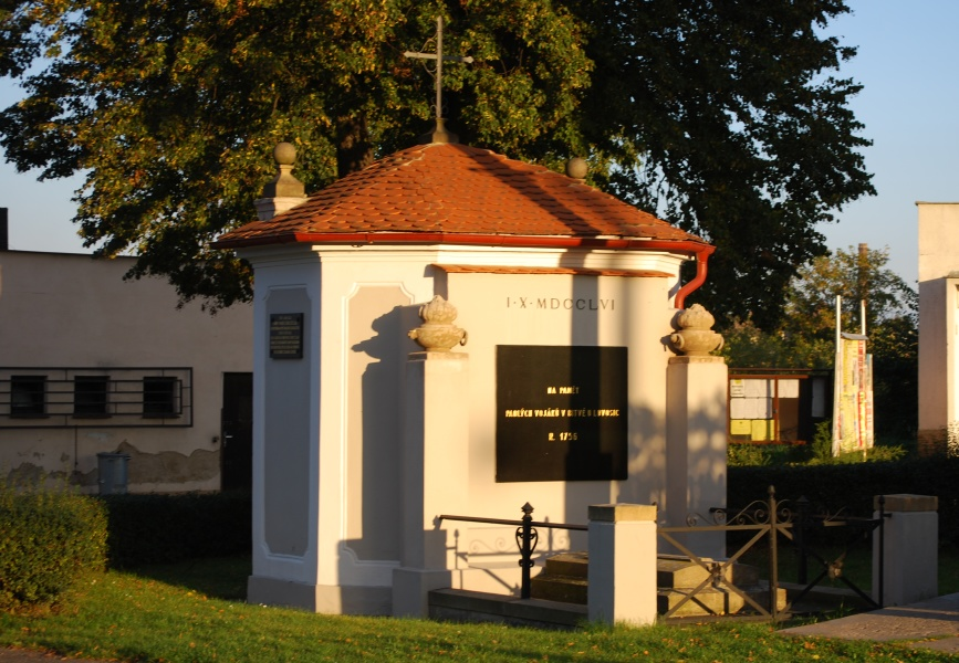 Chapel reminding Battle of Lobositz